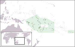 Locator map for the British Western Pacific Territories